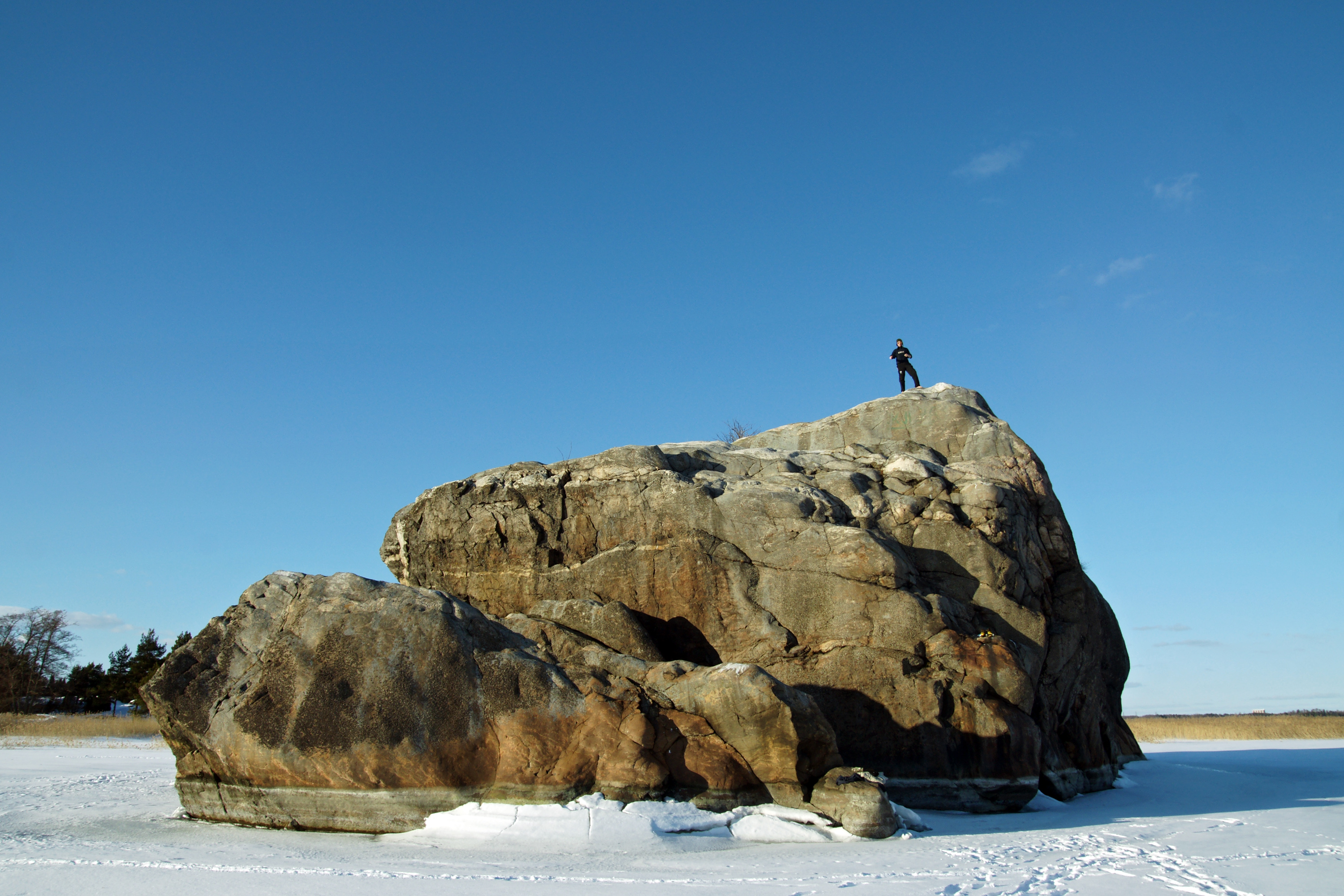 Kukkarokivi